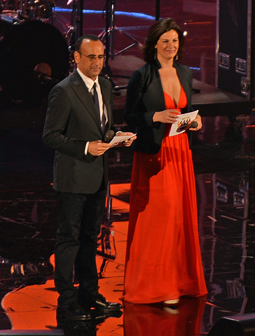 Carlo Conti and Vanessa Incontrada during the Wind Music Awards 2016 ceremony at the Verona Arena